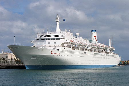 The Thomson Spirit in harbour in the Canary Islands in April 2005 IMO Number: 8024014 MMSI Number: 209594000 Callsign: P3SK9 Length: 214 m Beam: 28 m